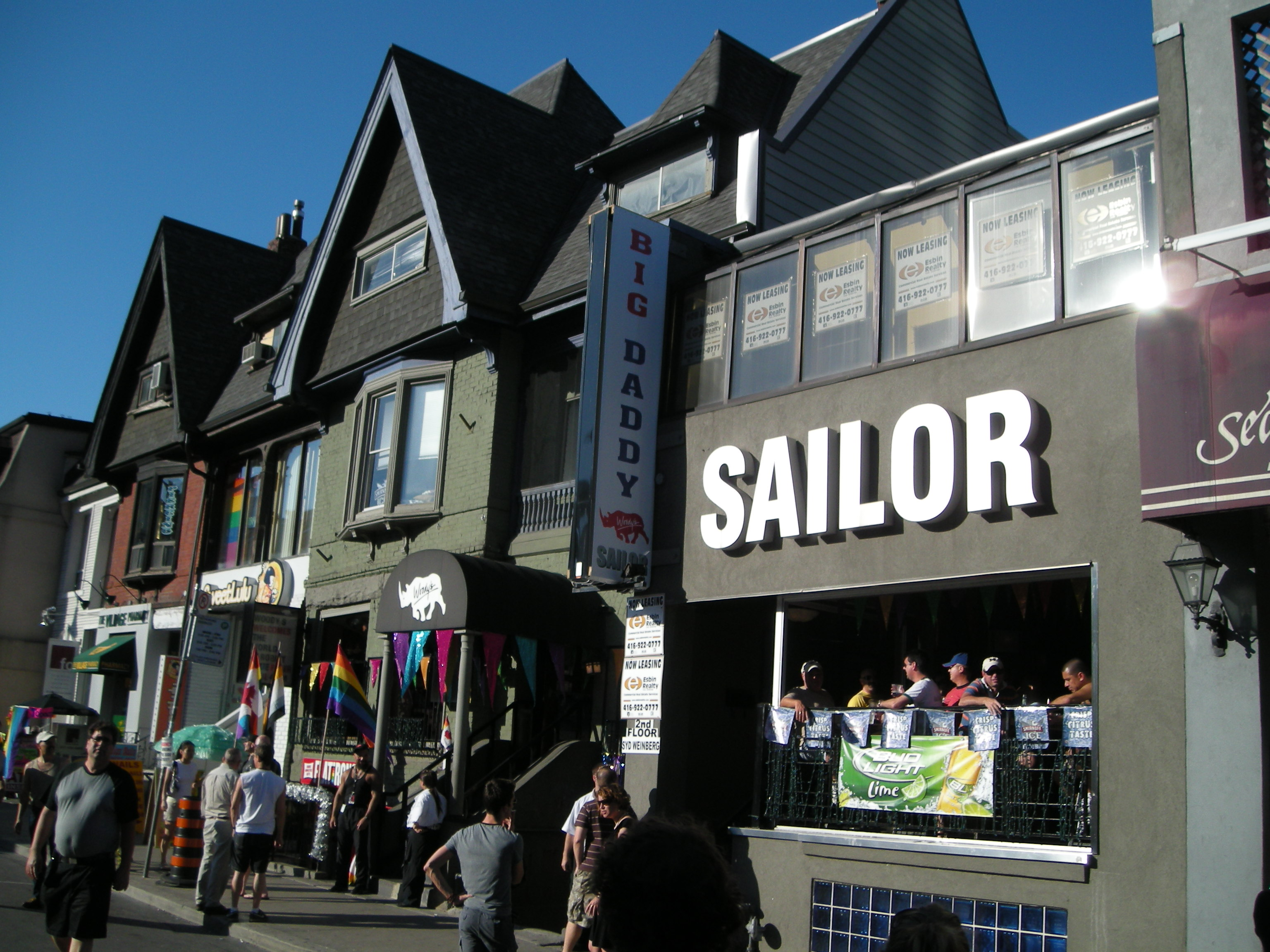 Bars on Church Street, Toronto, Canada.